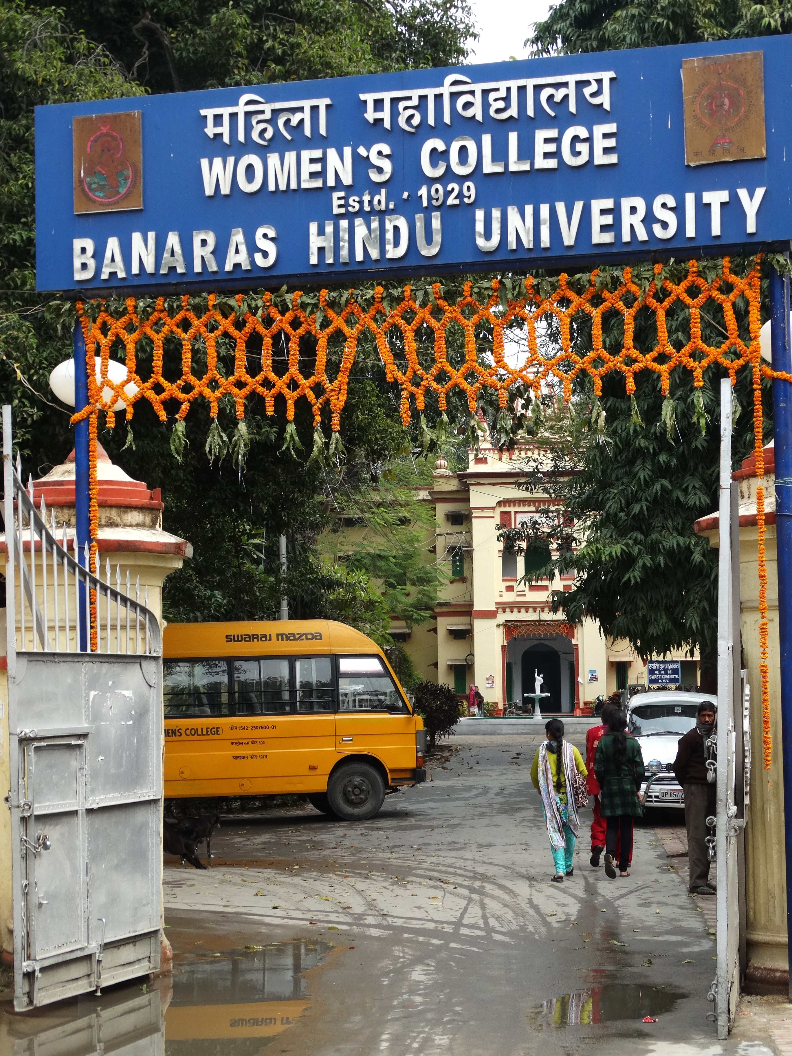 Women's College, Banaras Hindu University, Varanasi.